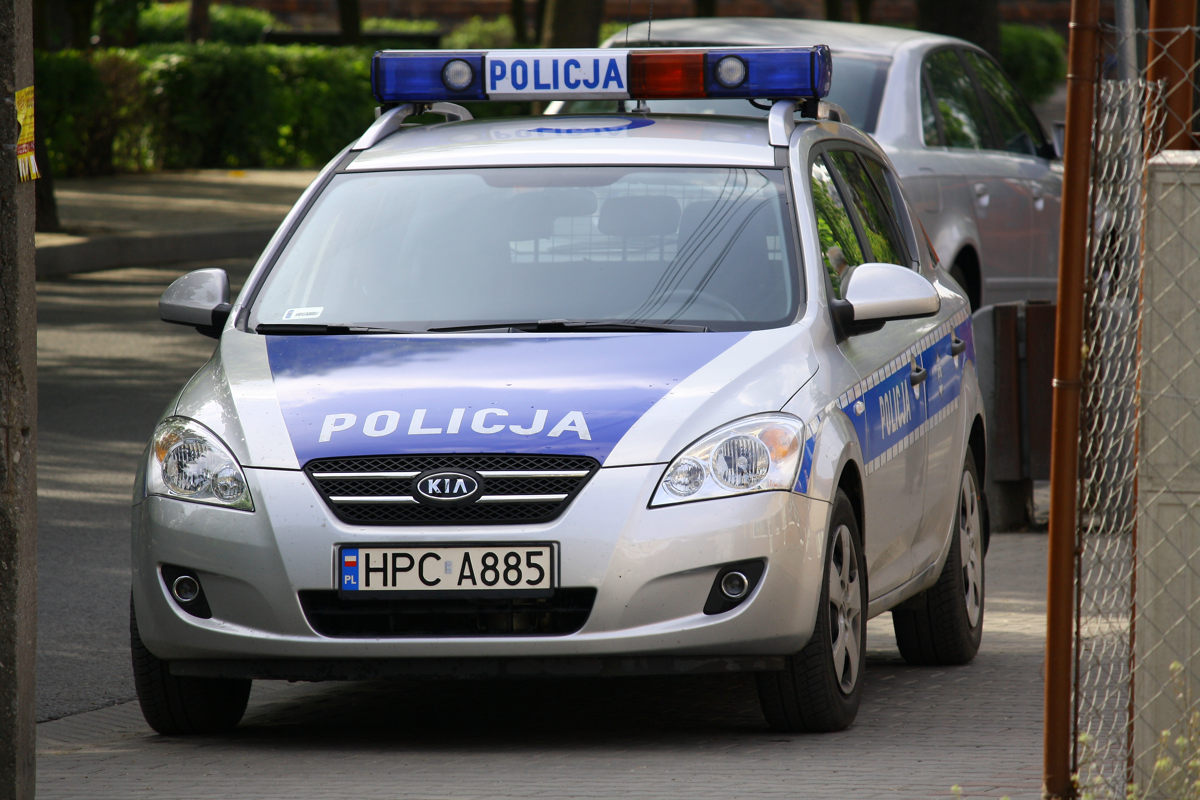 Kia cee'd used by Polish Police